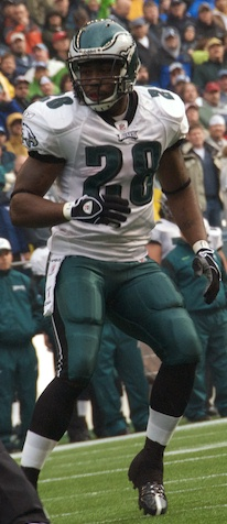 Philadelphia Eagles running back Correll Buckhalter in action in the game against the Seattle Seahawks on November 2, 2008 at Qwest Field.